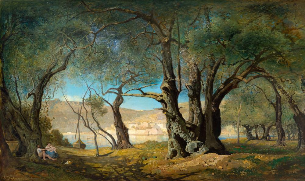 Southern landscape with figures